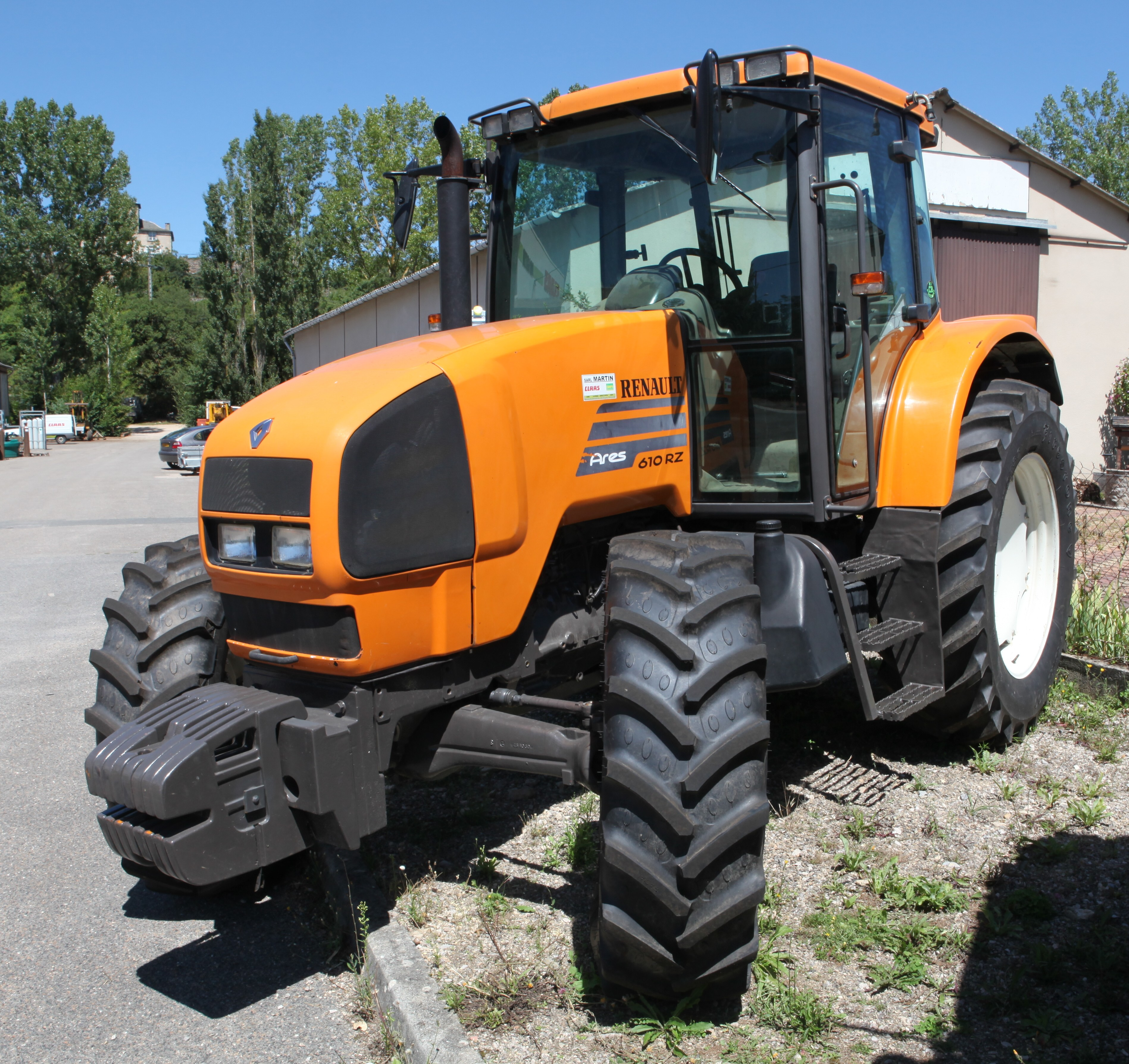 Renault Ares 610 RZ tractor